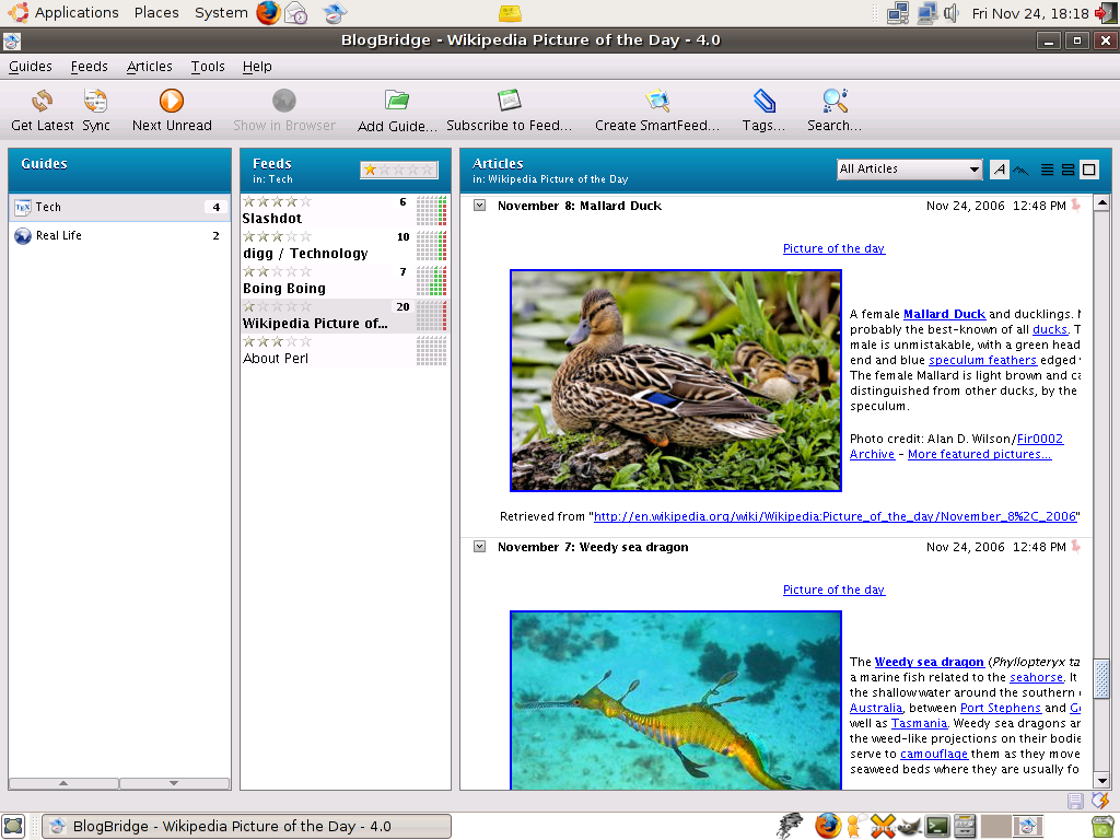 BlogBridge viewing the Wikipedia Picture of the Day RSS feed